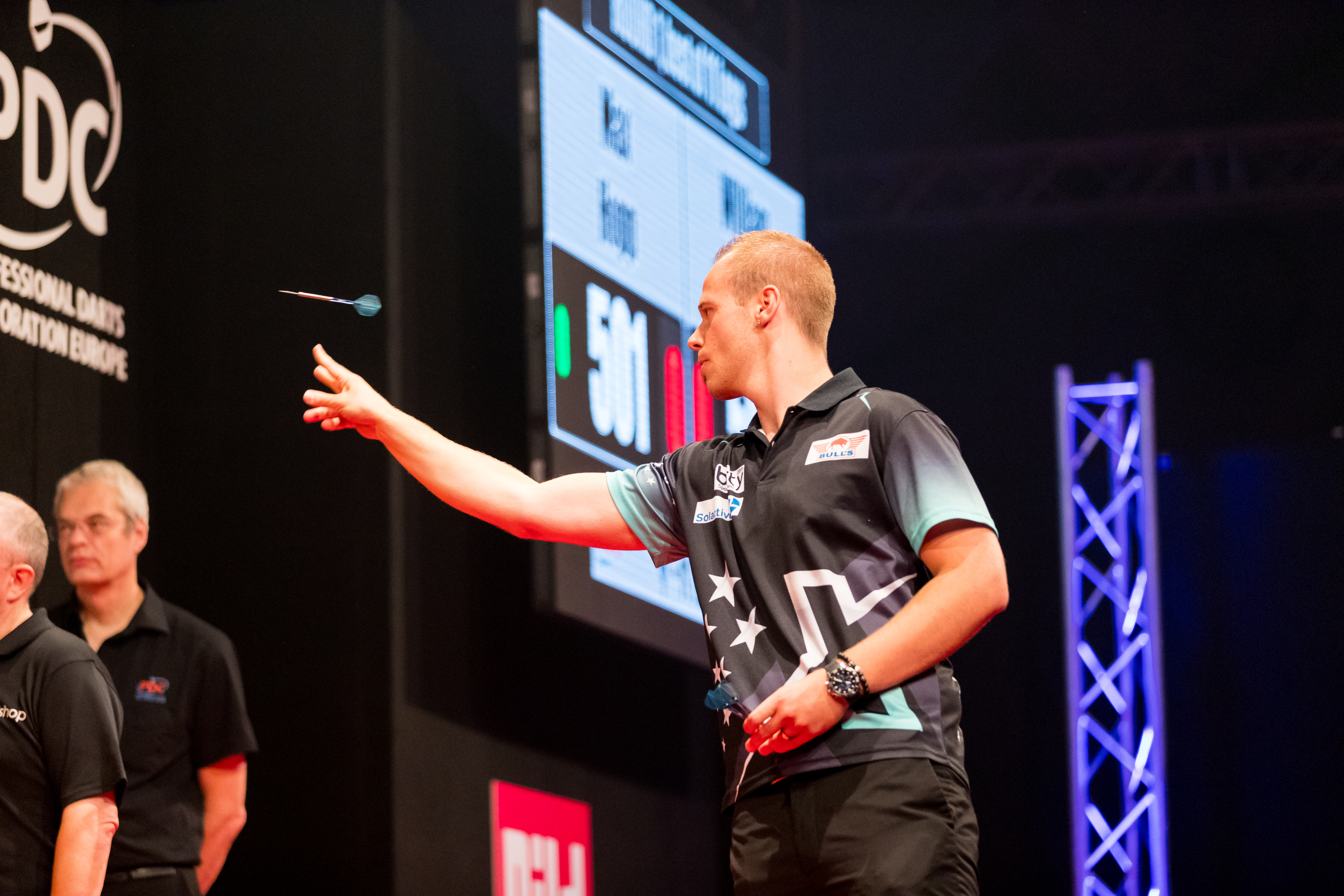 Max Hopp 5:6 William O'Connor during PDC Europe Darts Matchplay at Maimarkthalle, Mannheim, Baden-Württemberg, Germany on 2019-09-06, Photo: Sven Mandel